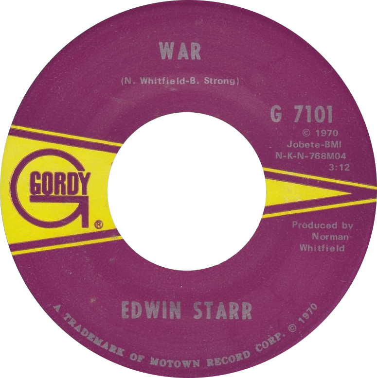 One of side-A labels of the US vinyl single "War" by Edwin Starr